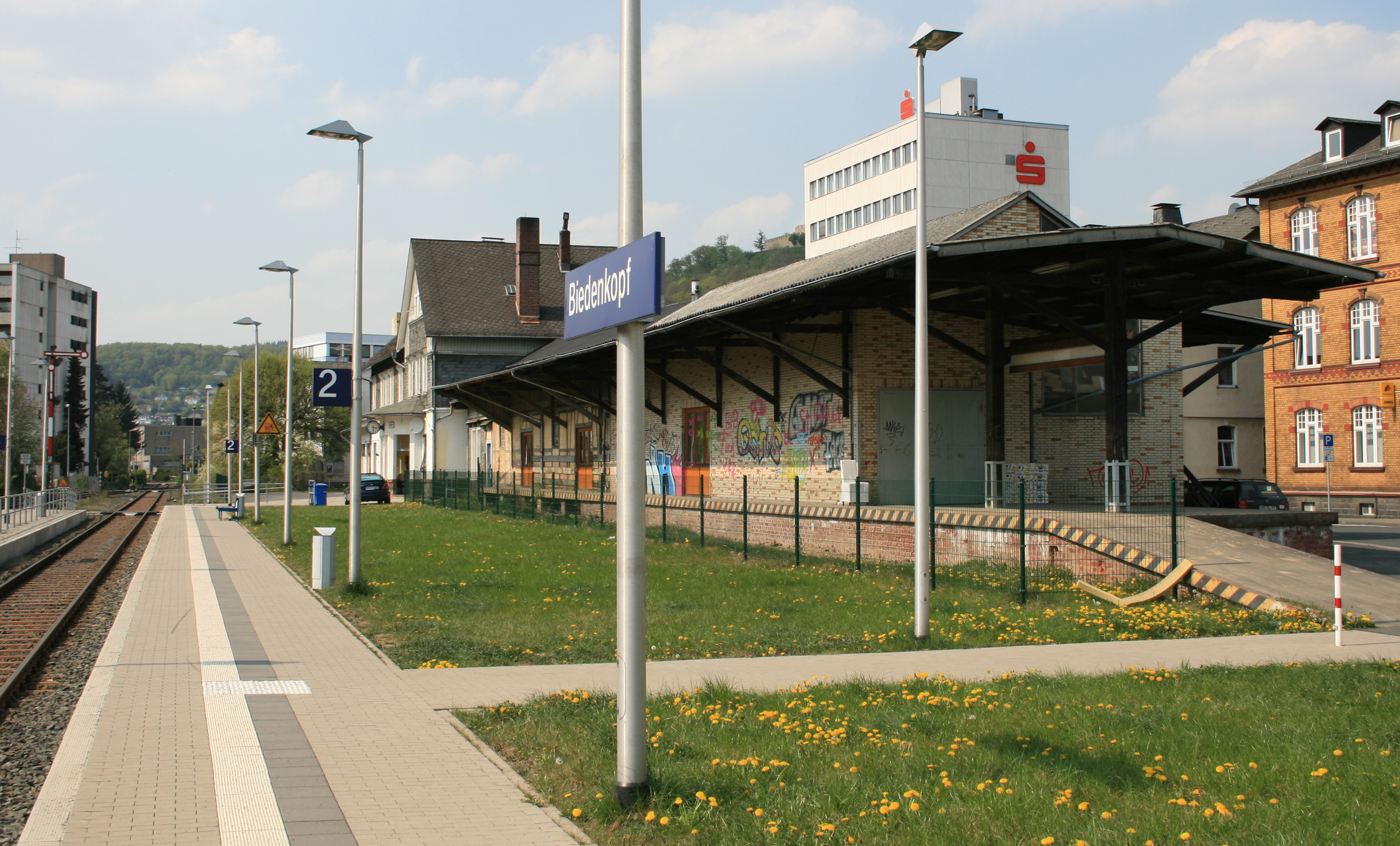 Germany, Hesse, Biedenkopf/Lahn, Station: View of the goods shed. Instead of the green area there were formerly railroad for freight handling.